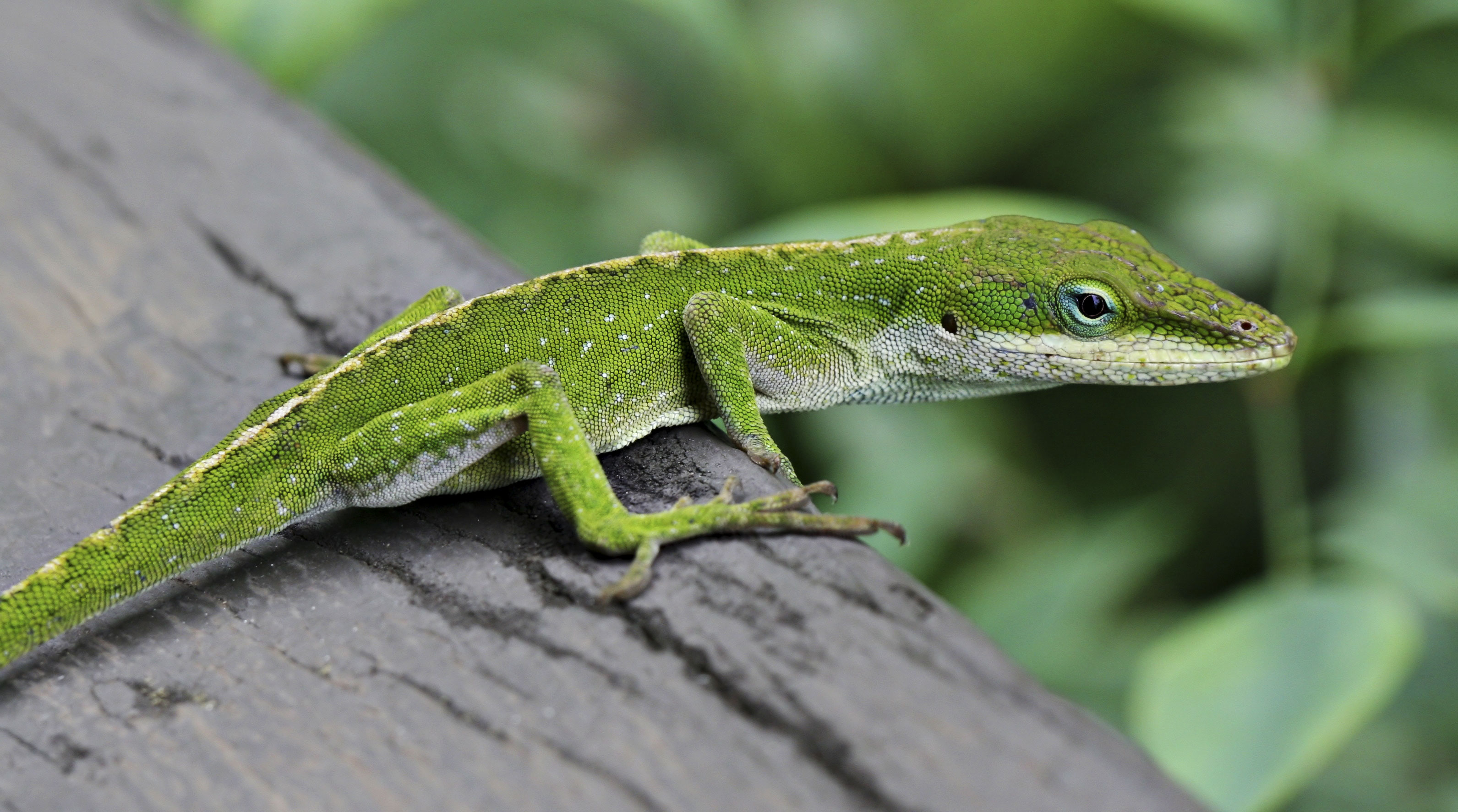 Green Anole Lizard (Anolis carolinensis) on railing in Hilo, Hawaii.